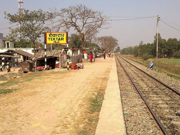 Morning view of Tektar Railway Station